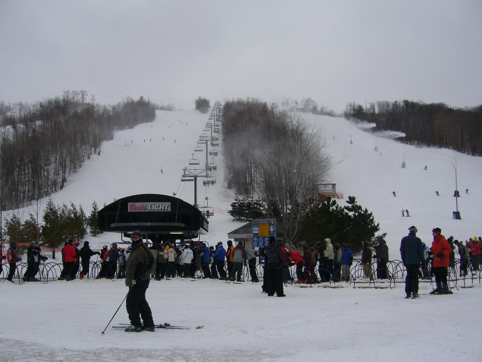 Ski Slopes, Blue Mountain.